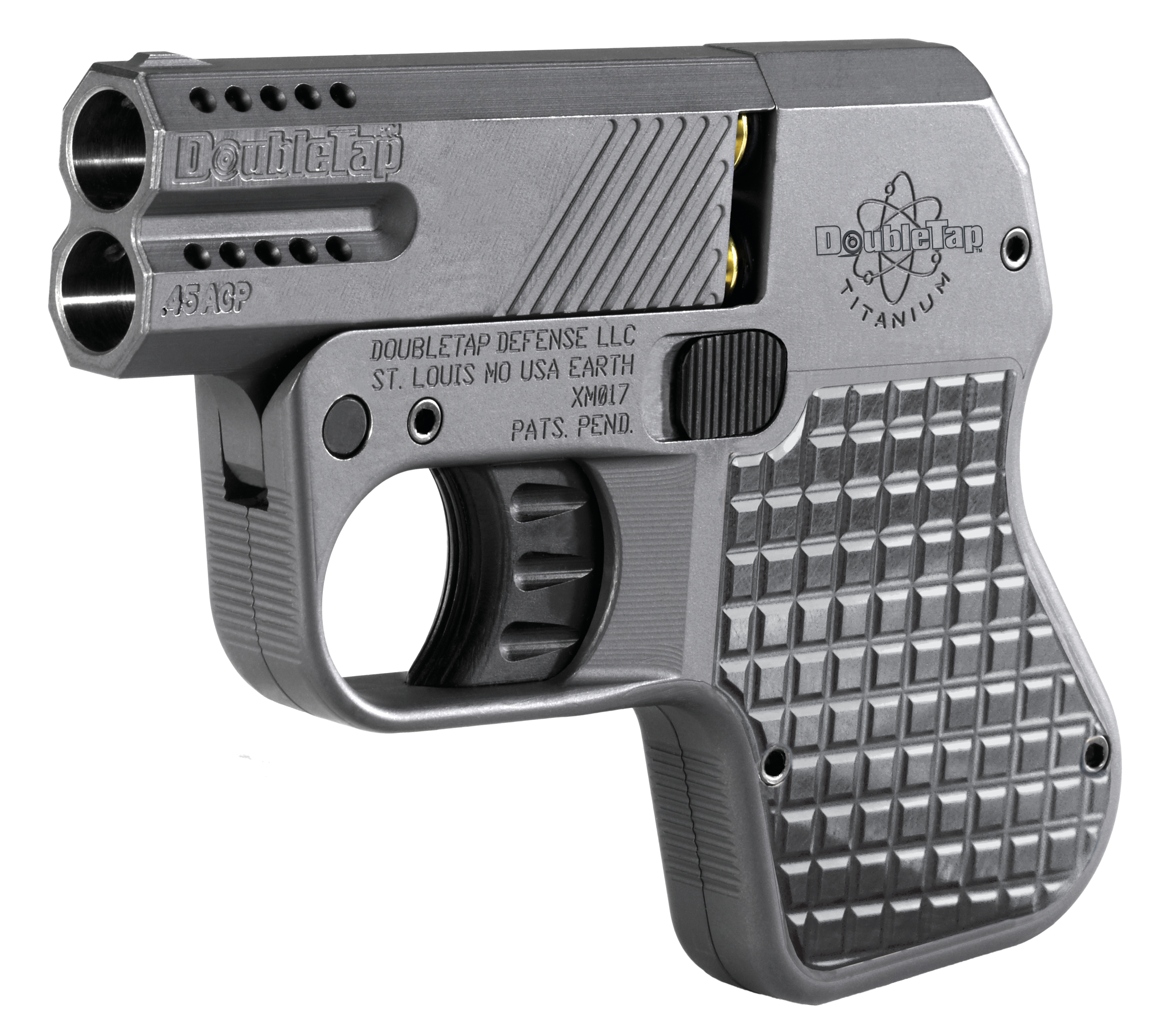 Heizer DoubleTap pistol